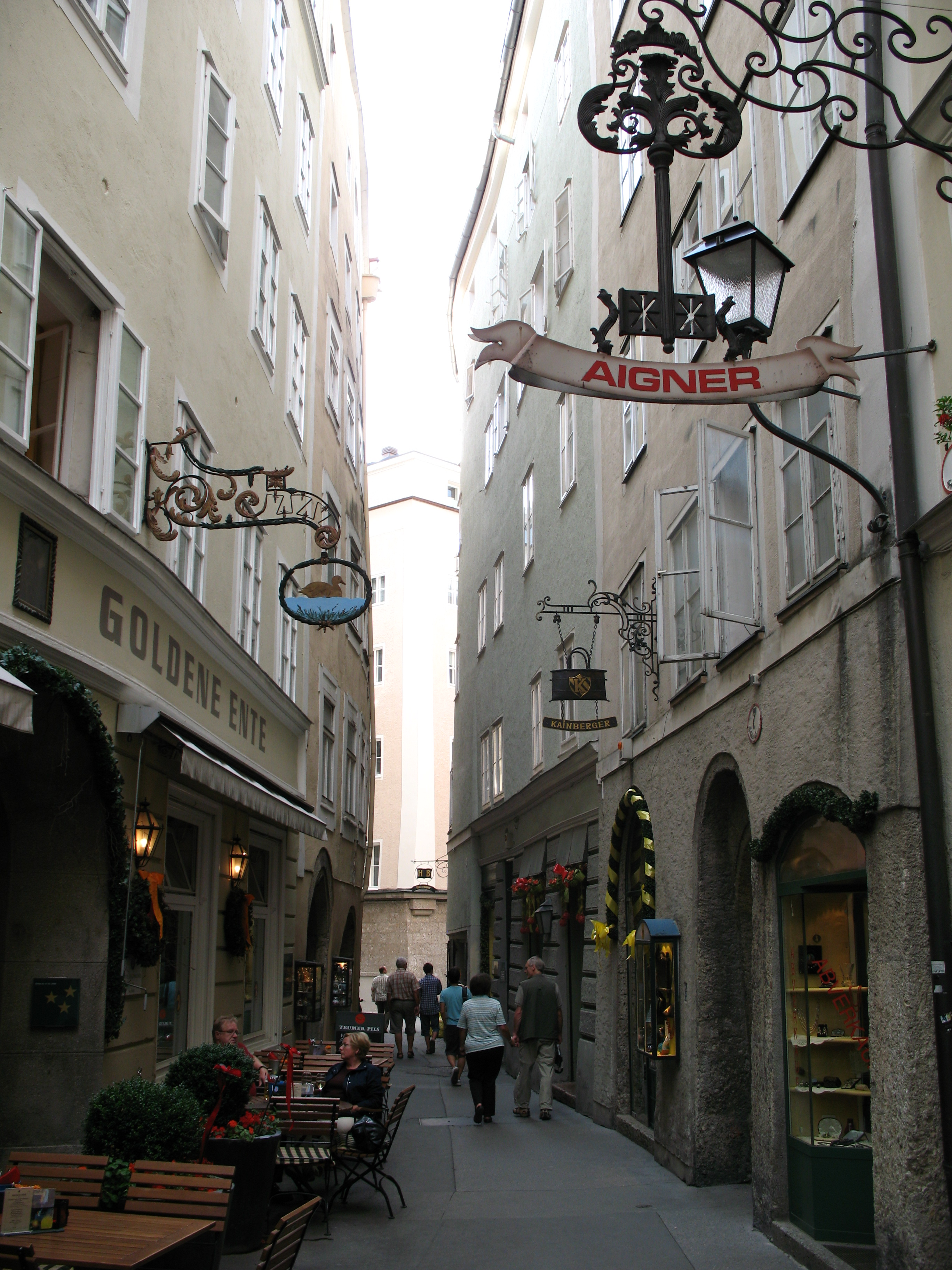 Gold Lane, Salzburg, Austria